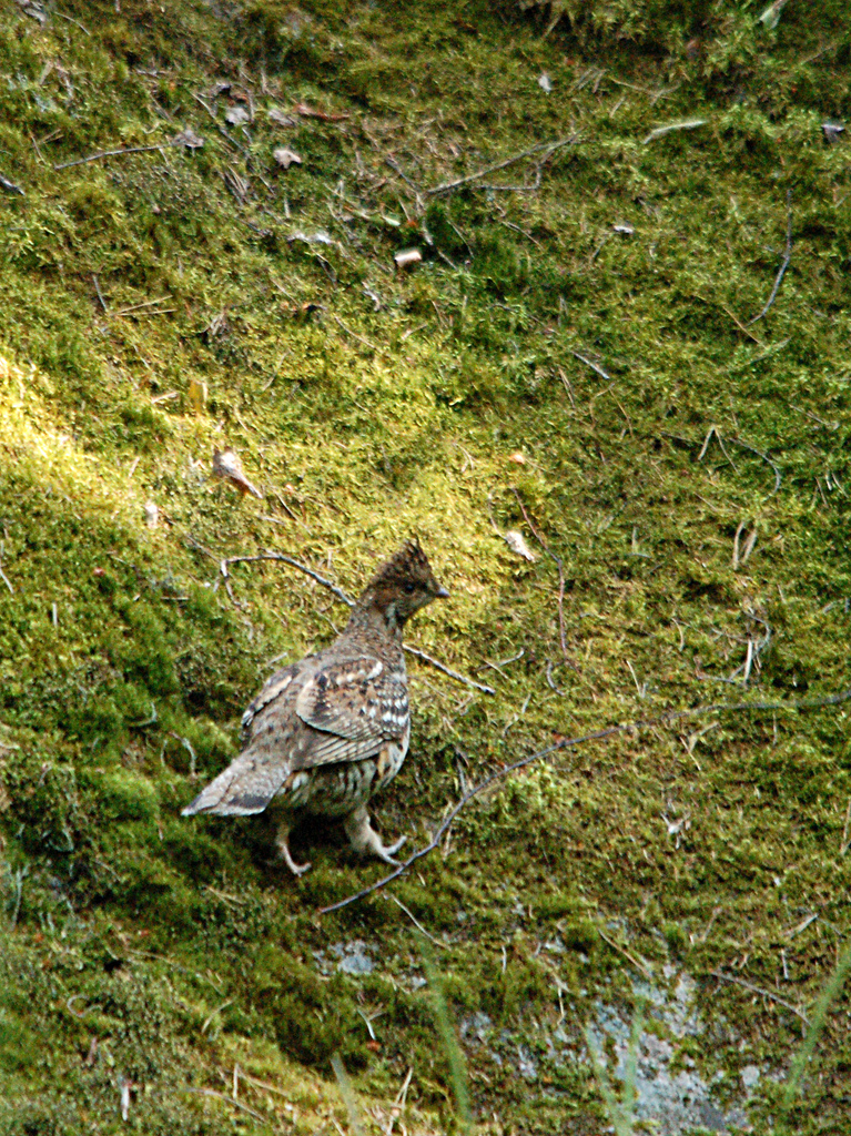 Hazel Grouse (Tetrastes bonasia)